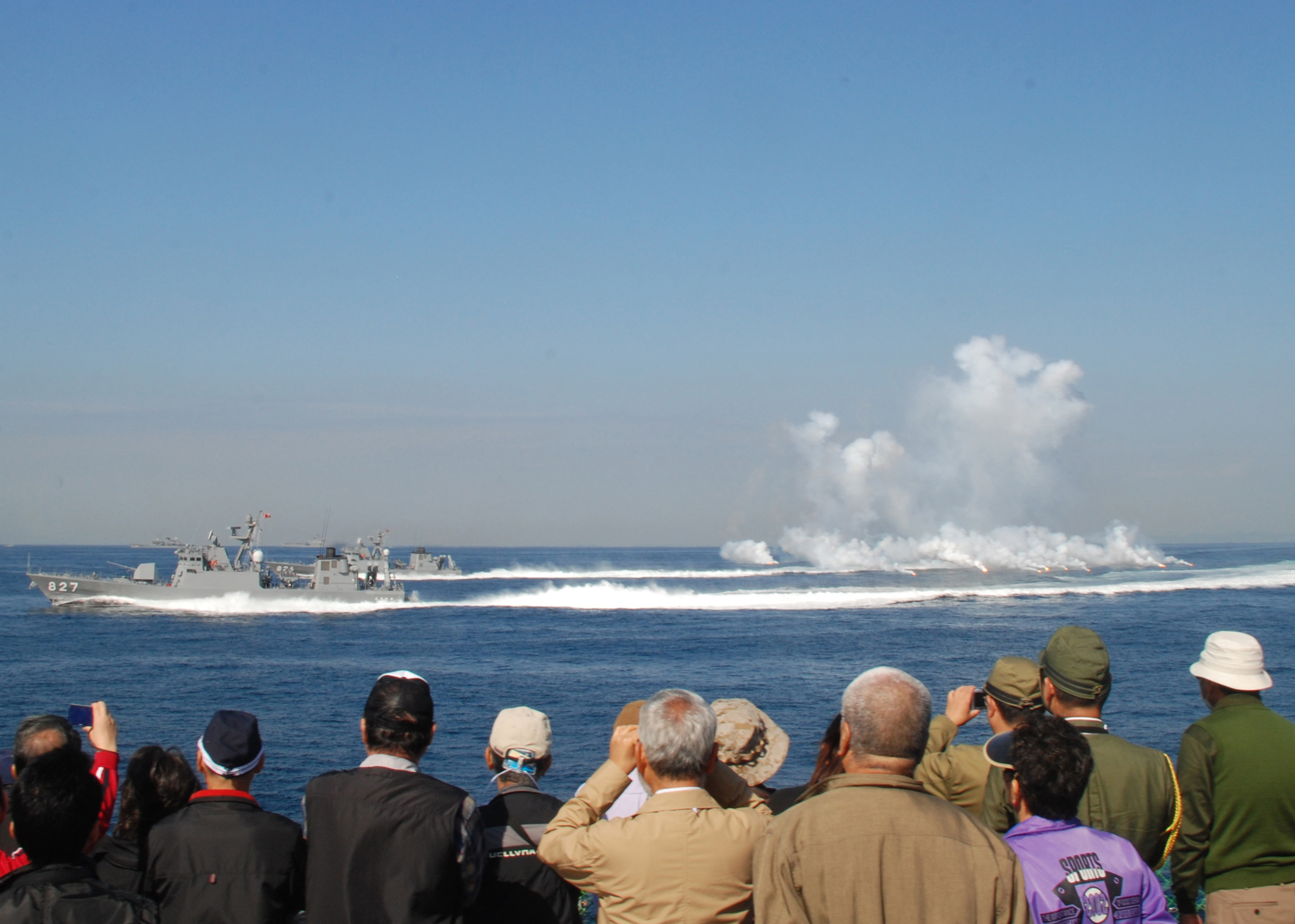 SAGAMI BAY, Japan (Oct. 21, 2009) Spectators watch as the Japan Maritime Self-Defense Force missile boats JS Kumataka (PG-827) and JS Ōtaka (PG-826) perform high-speed maneuvering runs during a rehearsal for the 2009 fleet review. More than 8,000 civilians toured selected ships and viewed the rehearsal. (U.S. Navy photo by Mass Communication Specialist Seaman Dominique Pineiro/Released)